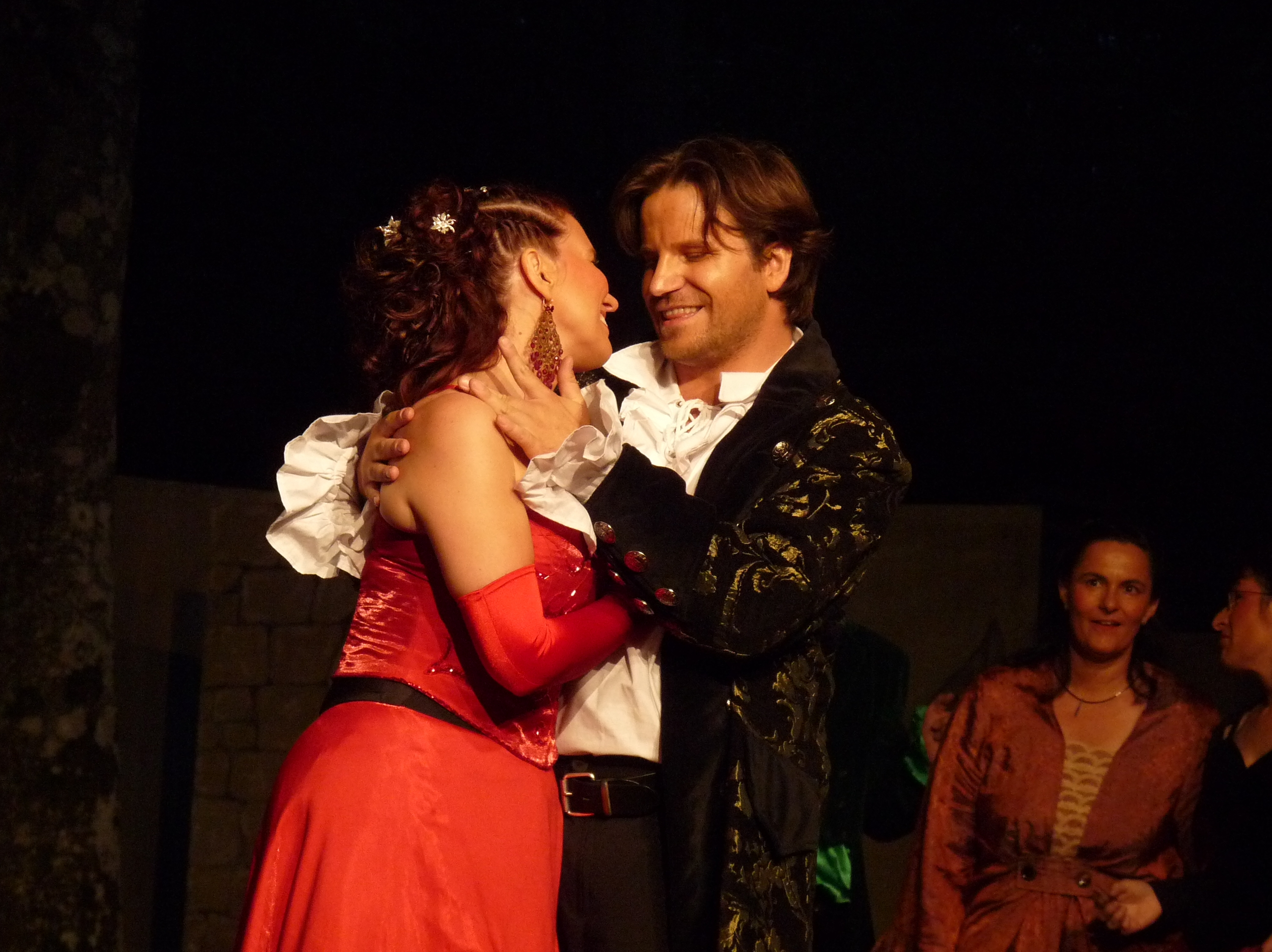 Scene from Hugo von Hofmannsthal's "Jedermann" - Naturtheater Waldbühne Sigmaringendorf, Germany